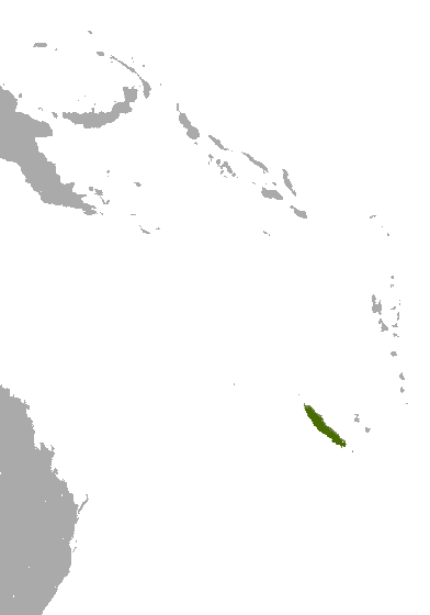 New Caledonia Flying Fox (Pteropus vetulus) range